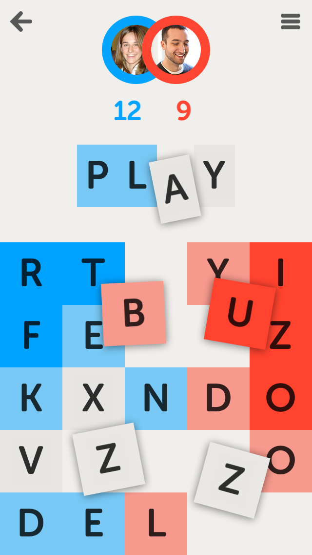 Screenshot of typical Letterpress gameplay